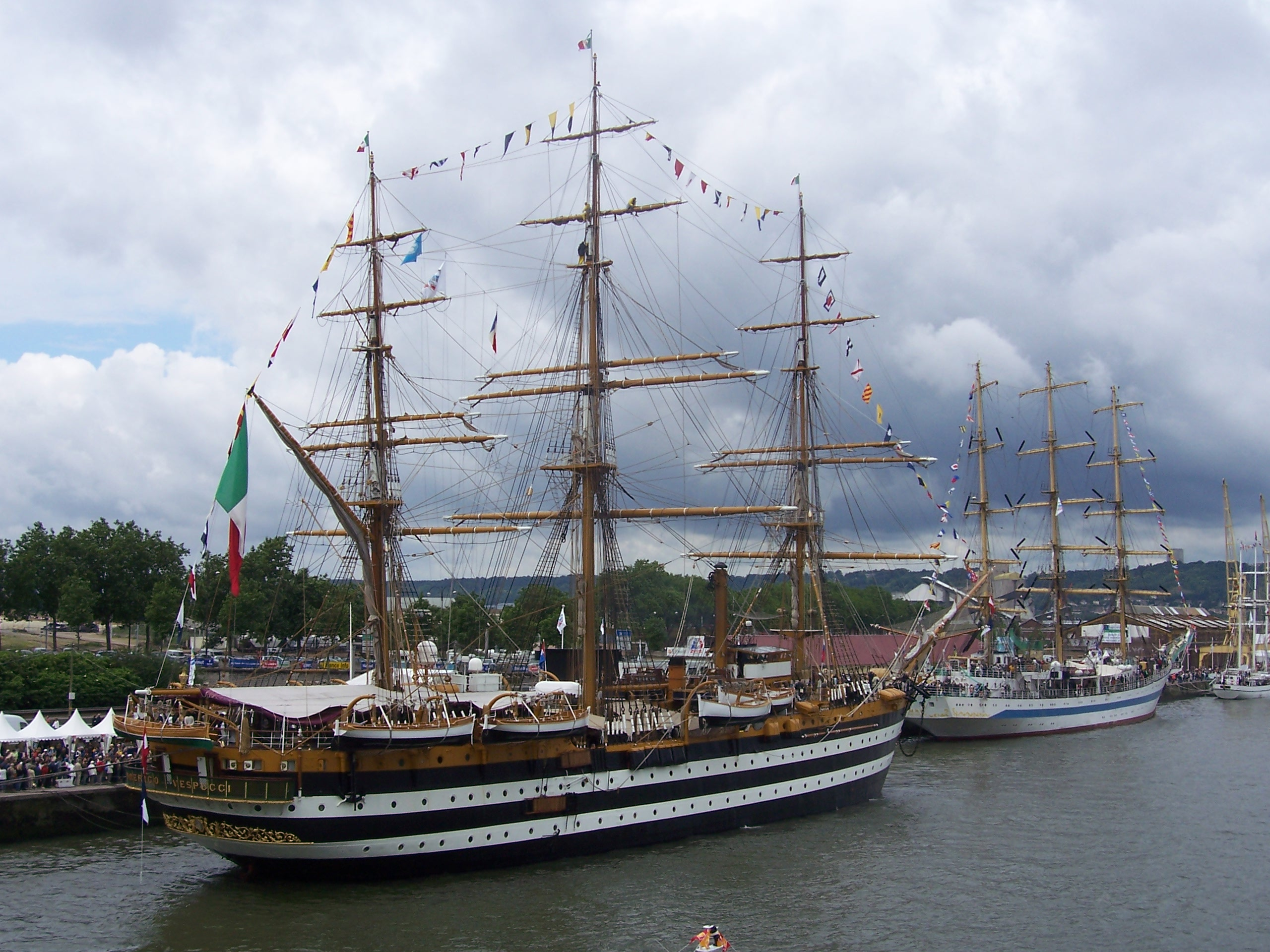 ship